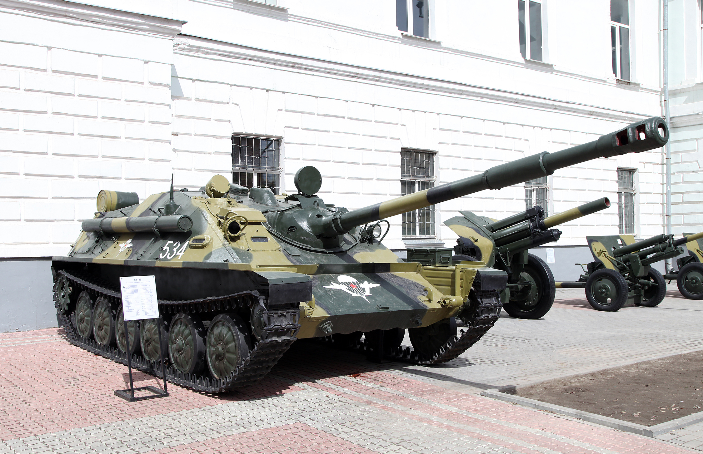 SU-85/ASU-85 self-propelled artillery